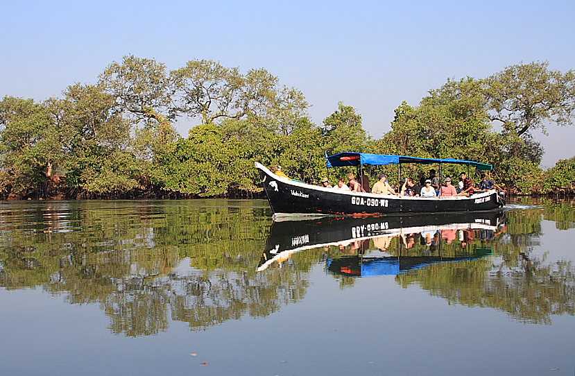 Tourist boat on Mandovi river. Goa,India.